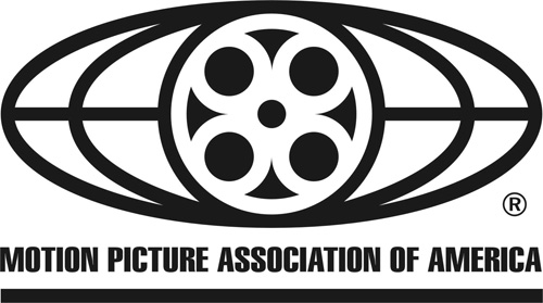 Motion Picture Association of America